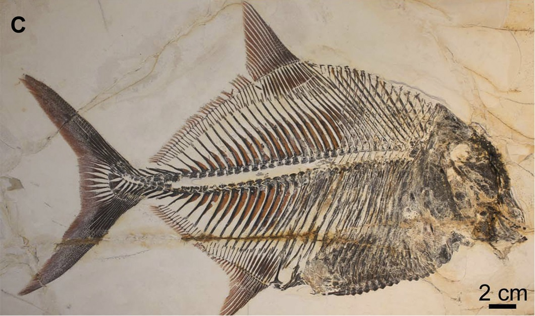 Proscinetes bernardi (JME-ETT250), Pycnodontidae from Plattenkalk V, Ettling, Germany